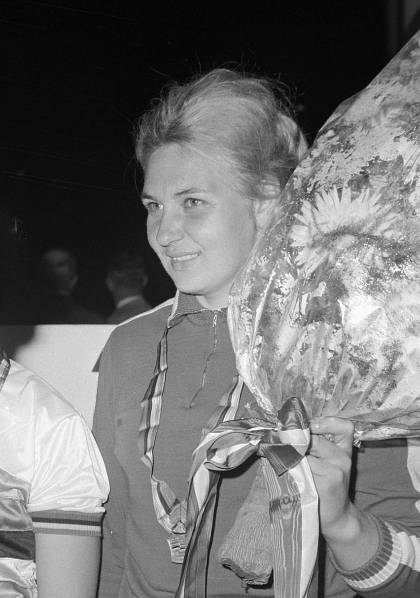 WK Wielrennen, sprint finale dames. Galina Yermolayeva